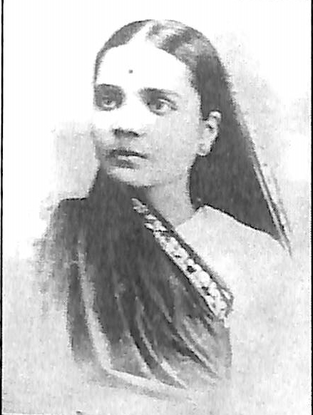 Nilkanth family of Gujarat